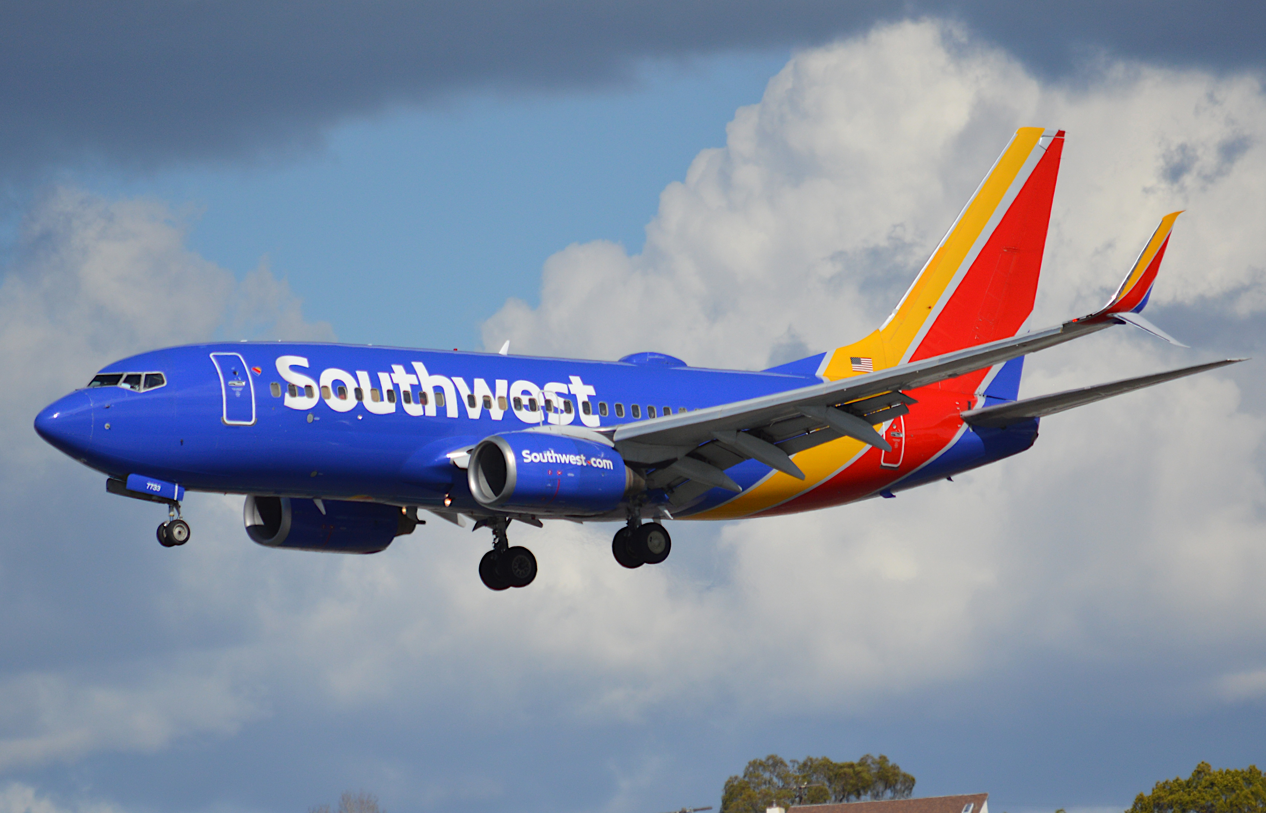 I am finding a lot of these ex-AirTran 737s here at SAN for some reason! Southwest Airlines Boeing 737-700 N7733B landing on runway 27, San Diego international Airport, February 18, 2019